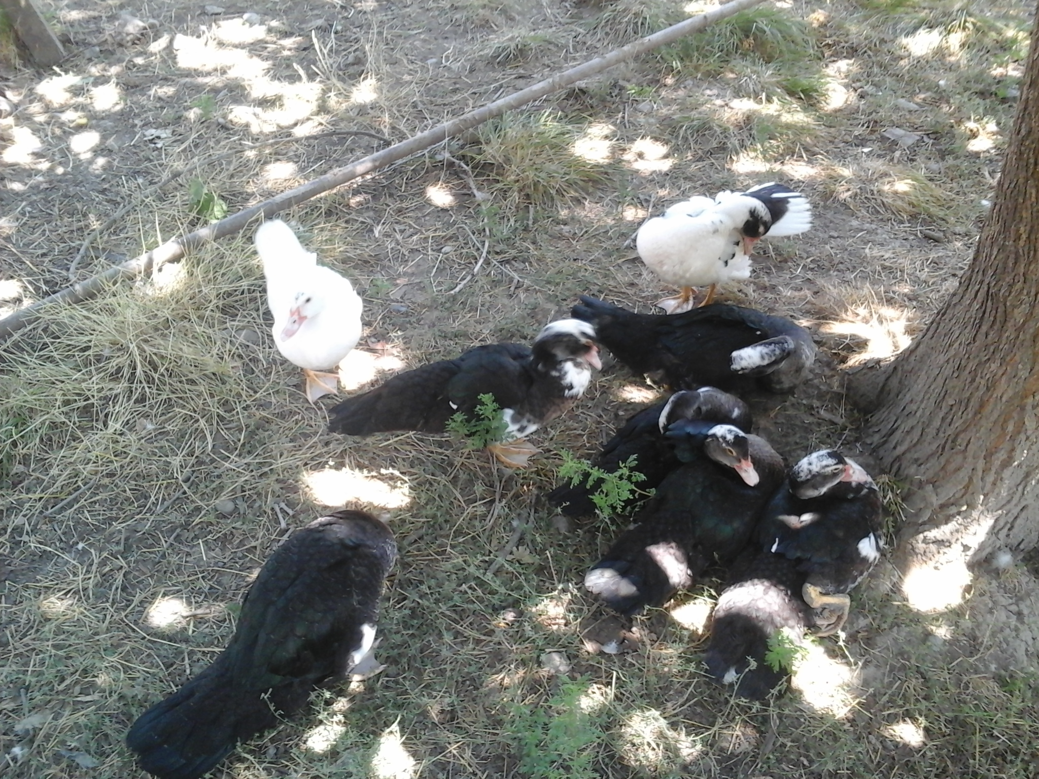 Chicks of muscovy ducks.